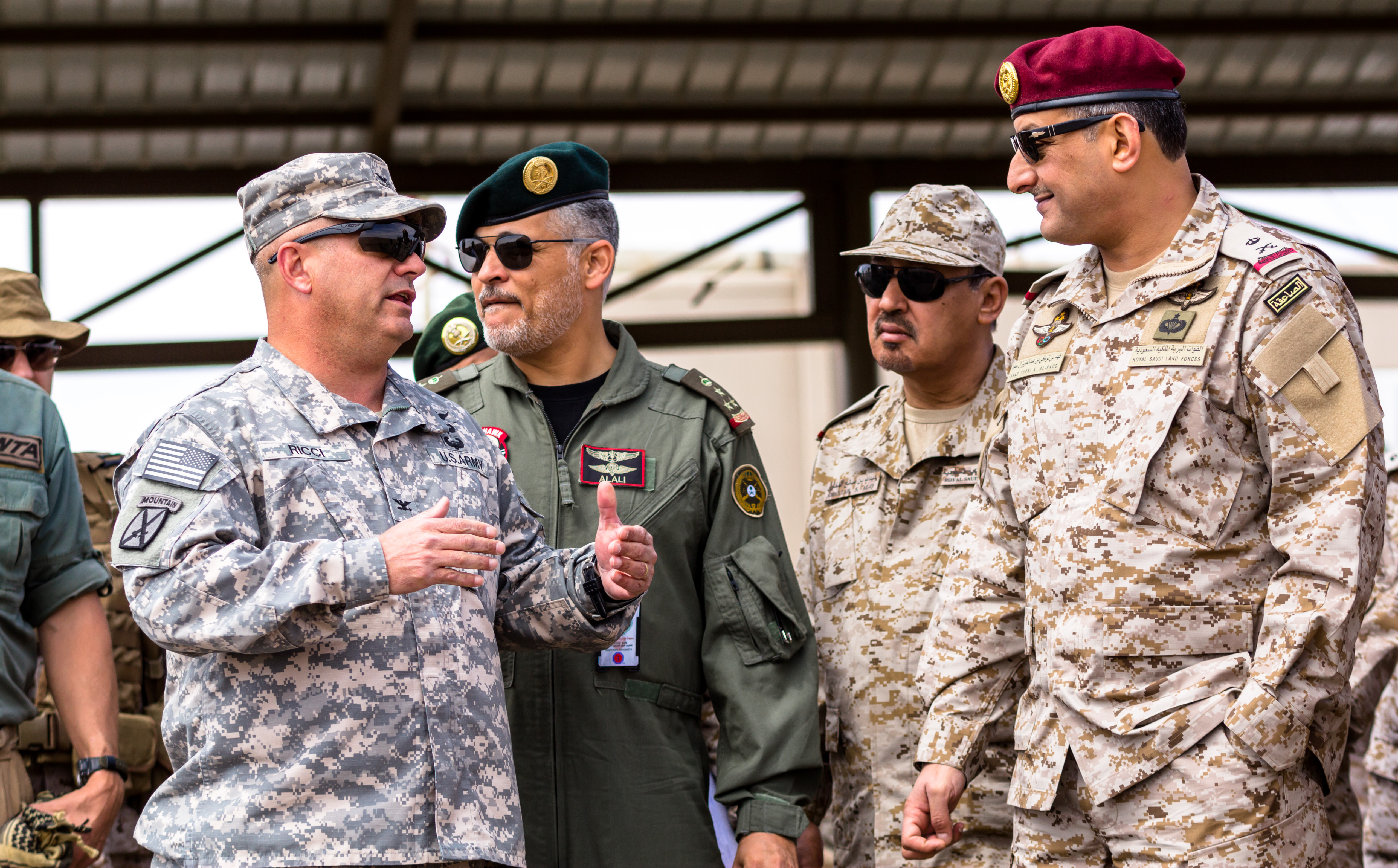 Col. Albert J. Ricci Sr., commander of the 42nd Combat Aviation Brigade (CAB), speaks to Maj. Gen. Prince Fahad bin Turki Abdulaziz Al-Saud, Royal Saudi Land Forces, during a practice air assault during Exercise Friendship and Iron Hawk 14 on April 10, 2014, near Tabuk, Saudi Arabia. Iron Hawk and Friendship 14 involved U.S. Army forces from the 42nd CAB, New York Army National Guard, and 2nd Brigade Combat Team, 4th Infantry Division, and Saudi Arabian ground and aviation forces. Over weeks of practice the two militaries focused on improving their joint operating capabilities, integrating infantry, armor, and aviation assets from both countries in the final event on April 13th, 2014. The 42nd CAB is currently deployed to Kuwait in support of Operation Enduring Freedom, and conducts joint partnerships and exchanges with nations from across the region. (N.Y. Army National Guard photo by Sgt. Harley Jelis/Released)